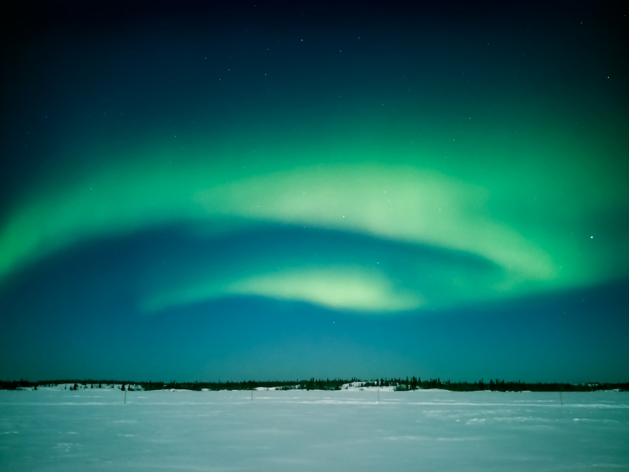 Aurora at Yellowknife, Canada. Picture taken with LG G Pro 2.